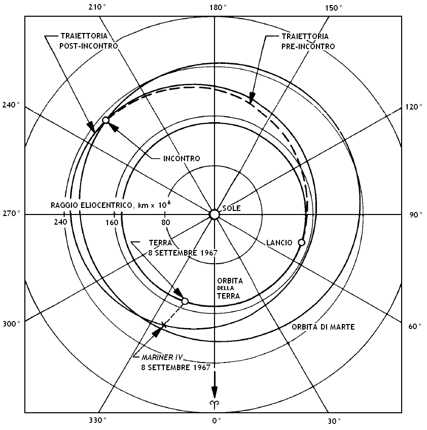 Full trajectory of Mariner IV